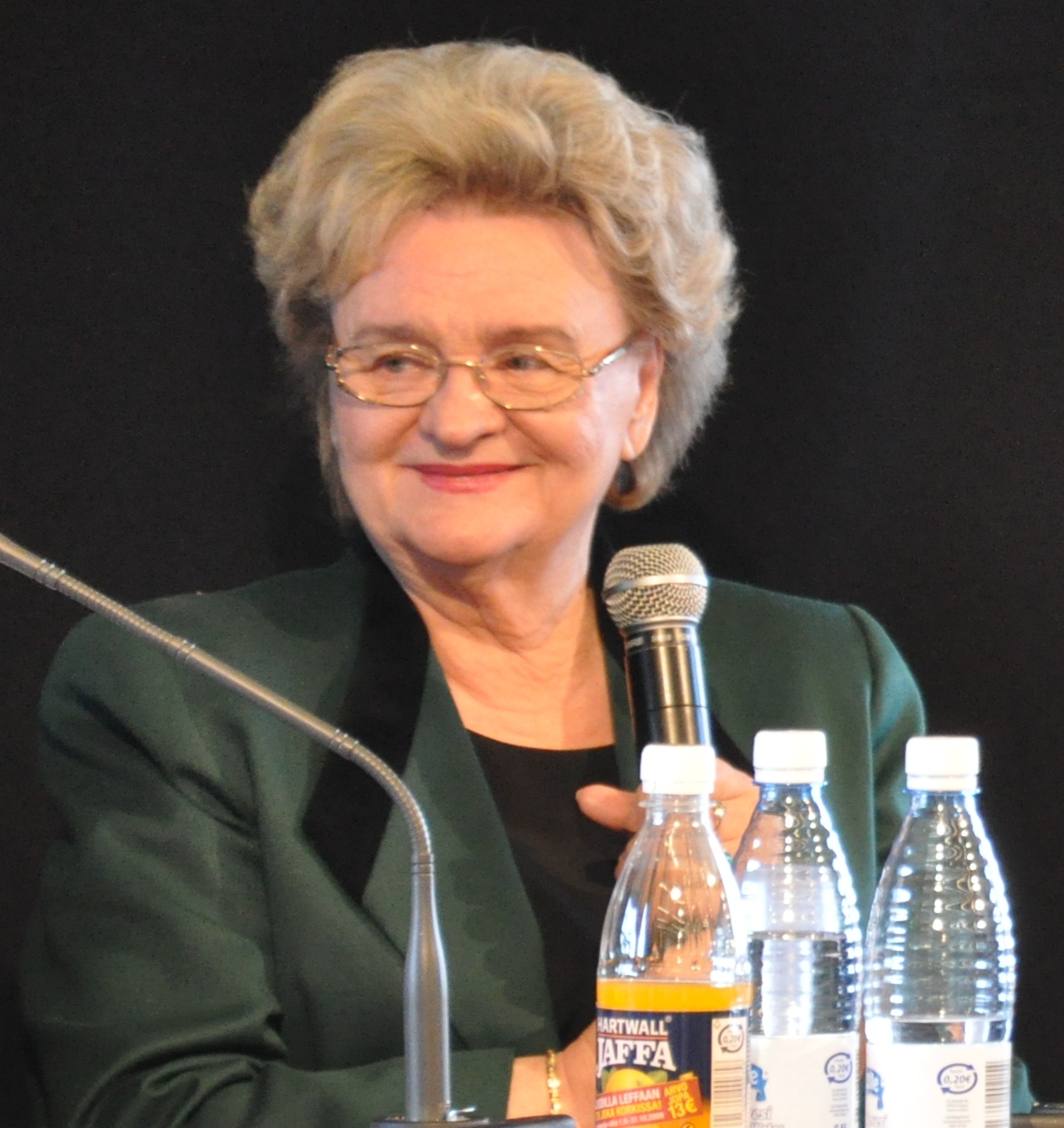 Finnish writer Laila Hirvisaari at the Turku Book Fair 2009.